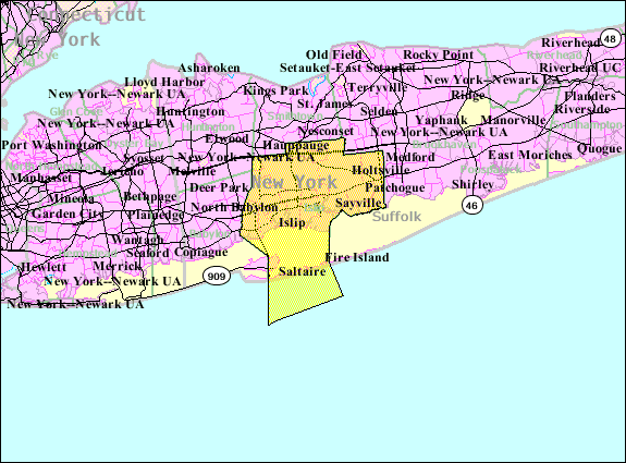 U.S. Census 2000 reference map for Islip